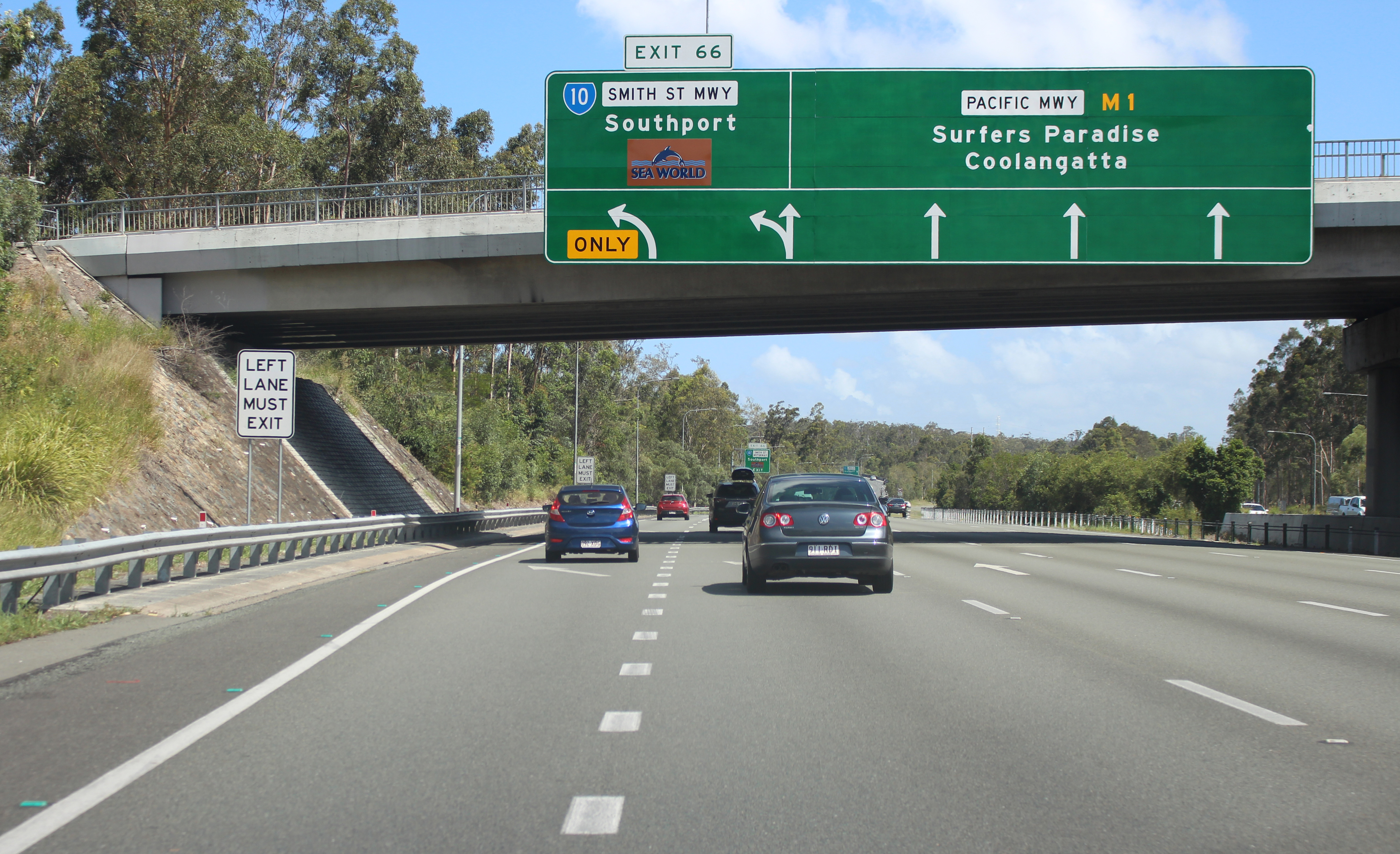 The Pacific Motorway (M1) southbound at the exit to the Smith Street Motorway in Gold Coast, Queensland. Photographed by user Coolcaesar on December 29, 2018.